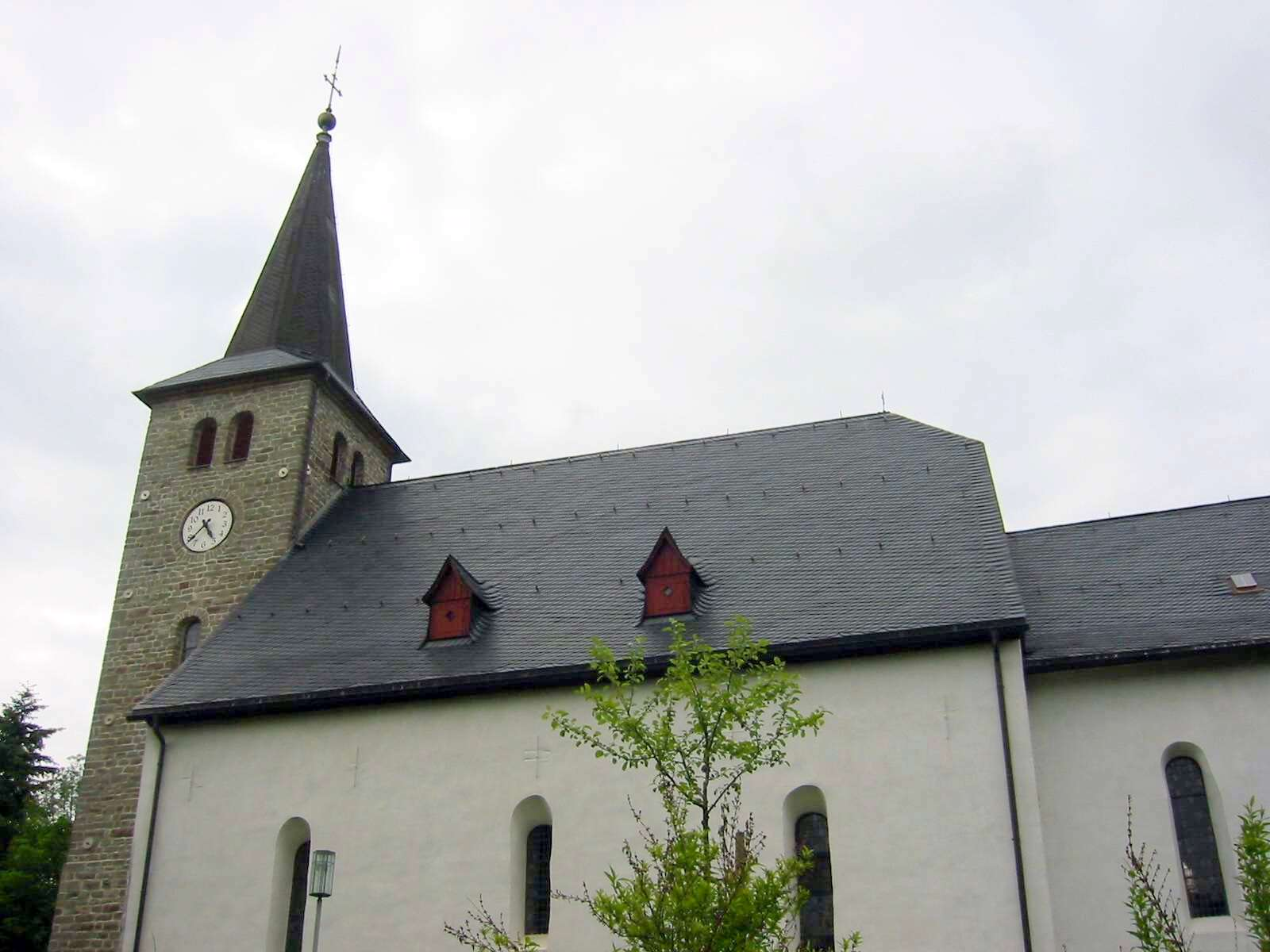 Cultural heritage monument in Bad Berleburg